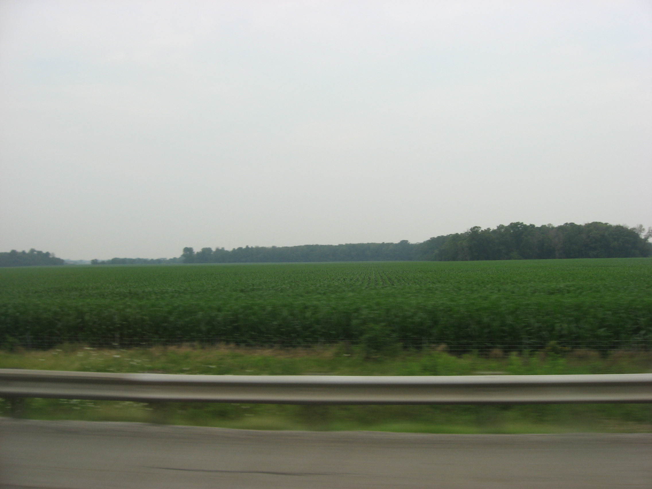 Countryside in northern Groton Township, Erie County, Ohio, United States. Picture taken looking northward from the concurrent Interstates 80/90 (the Ohio Turnpike).